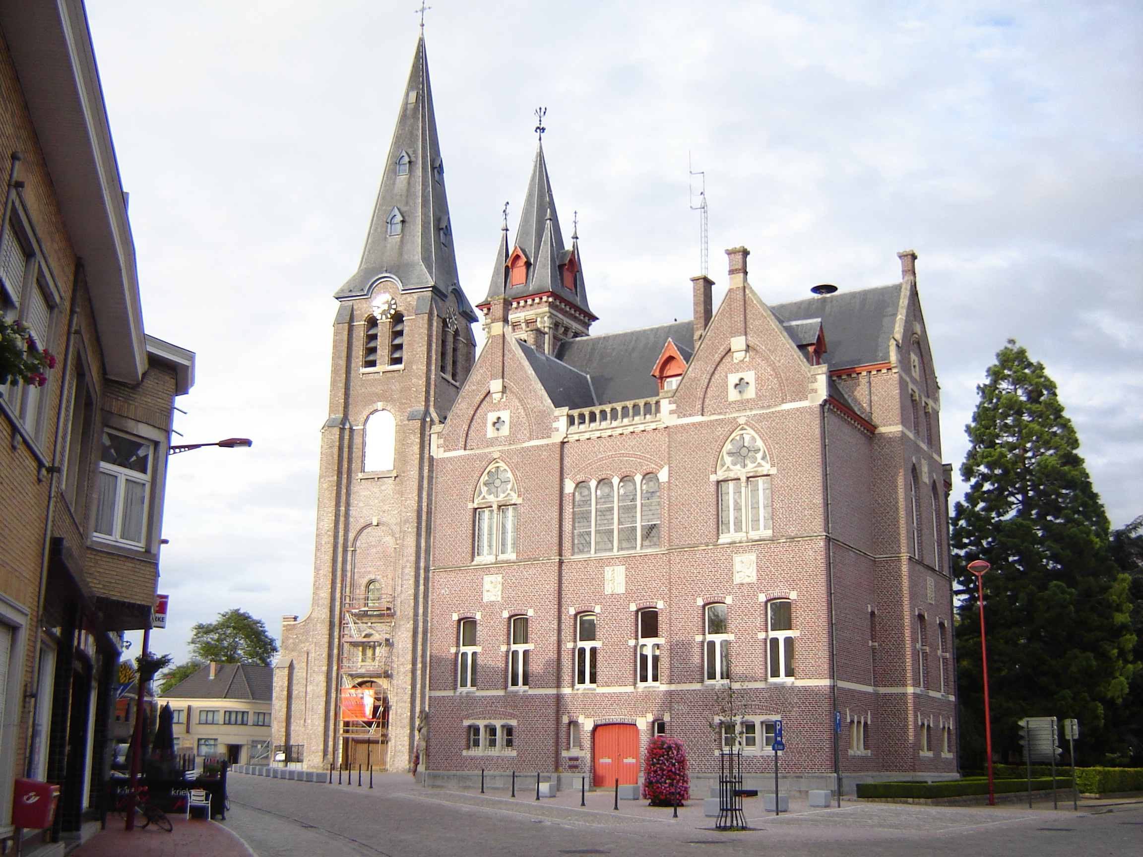 Markt market square in Ruiselede, with town hall and tower of the church of Our Lady. Ruiselede, West Flanders, Belgium.